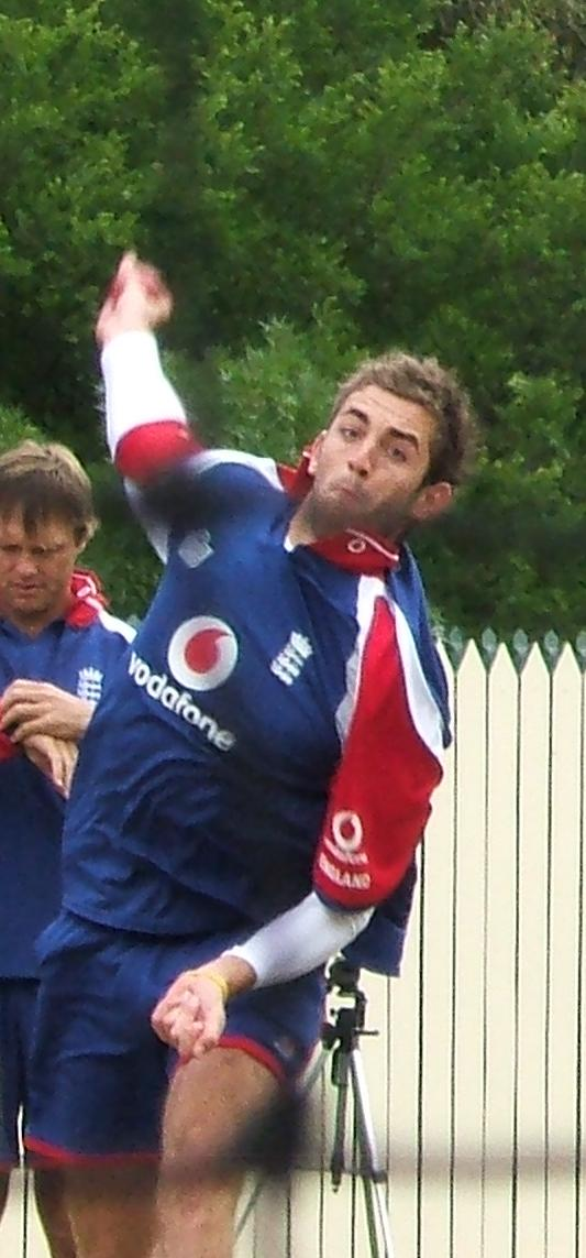 Liam Plunkett bowling in the nets at Adelaide Oval